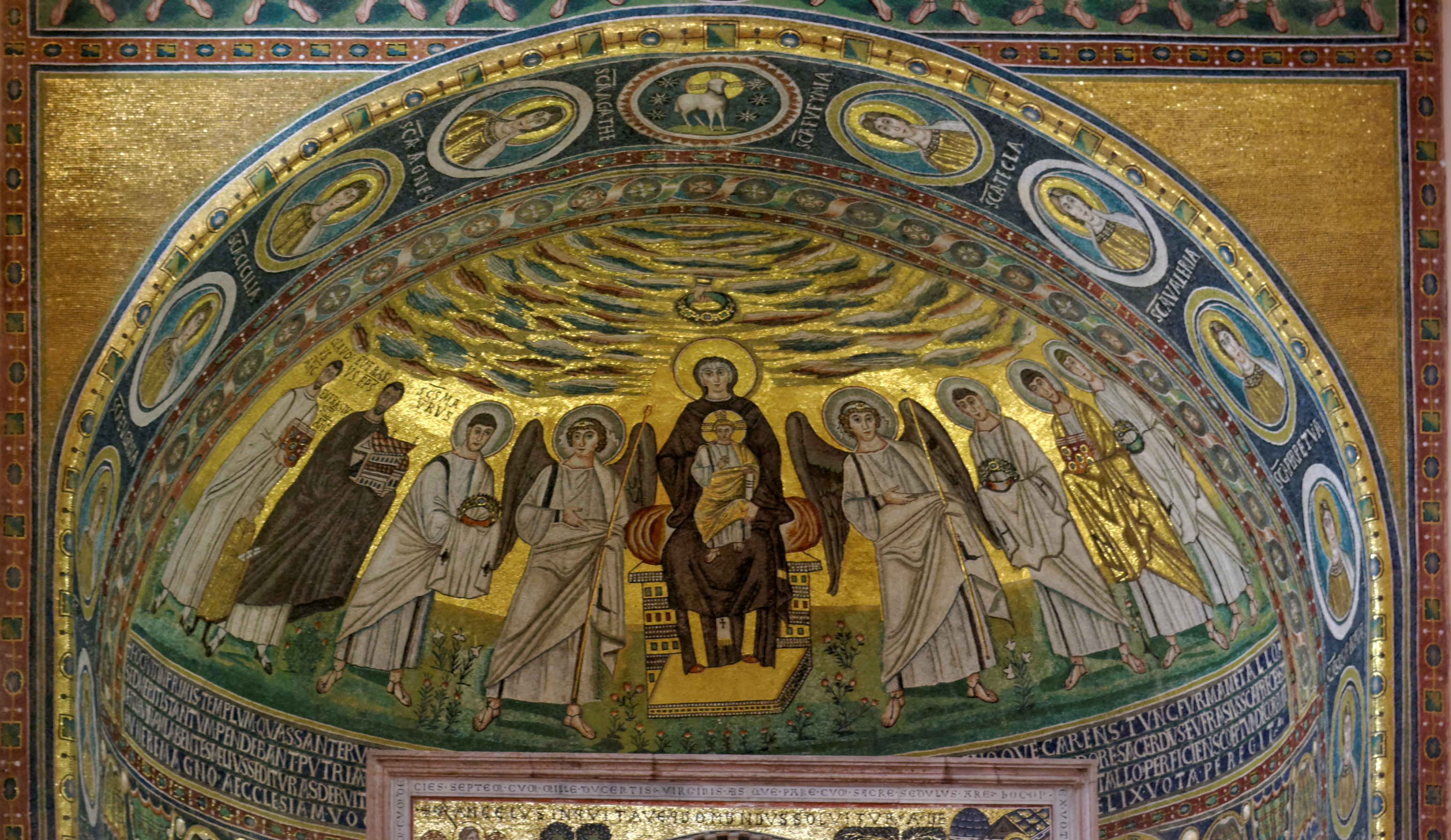 Croatia, Poreč, Euphrasian Basilica, apse